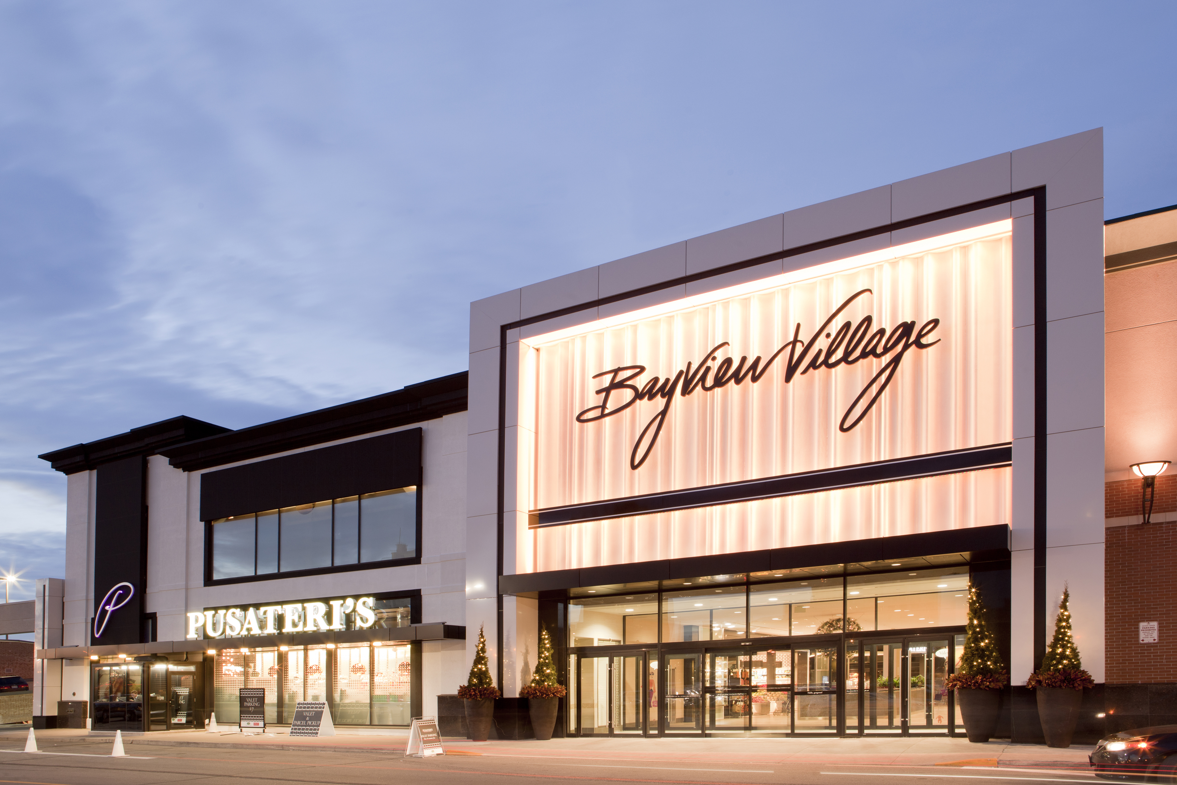 Bayview Village Shopping Centre – Pusateri's Entrance.